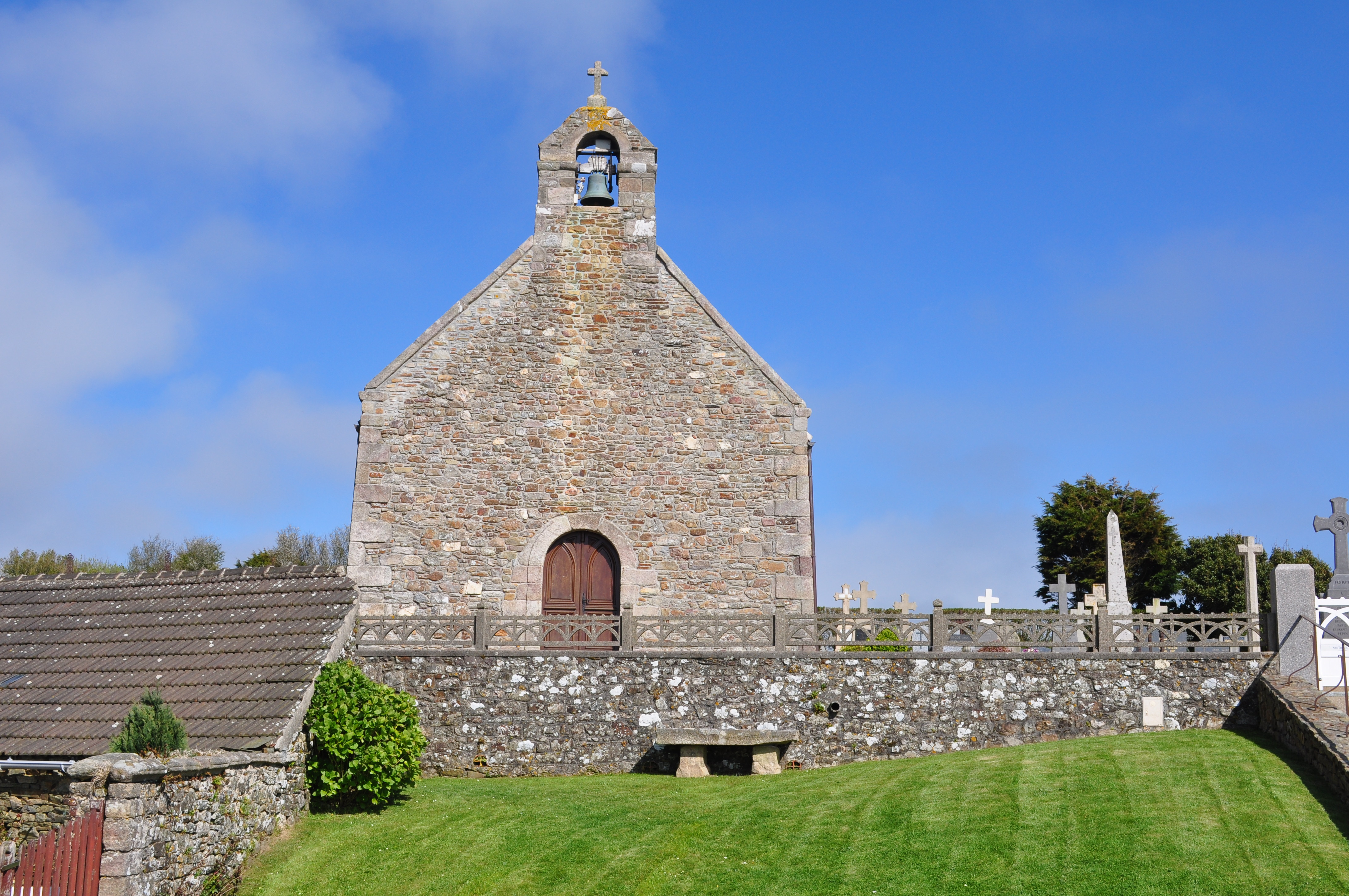 Church in Herqueville, Manche (50), Basse-Normandie, France